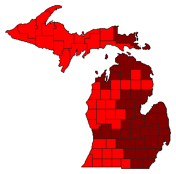 County by county results of the 2008 Republican Party primary election in Michigan.